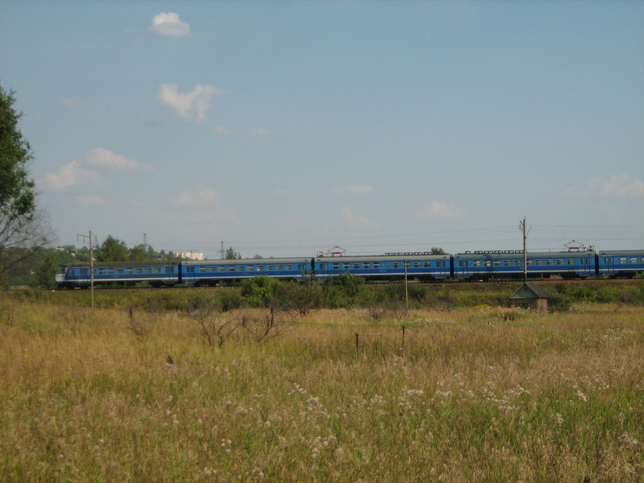 A commuter train is a rare guest in Kstovo (there are 2-3 of them each way every day).